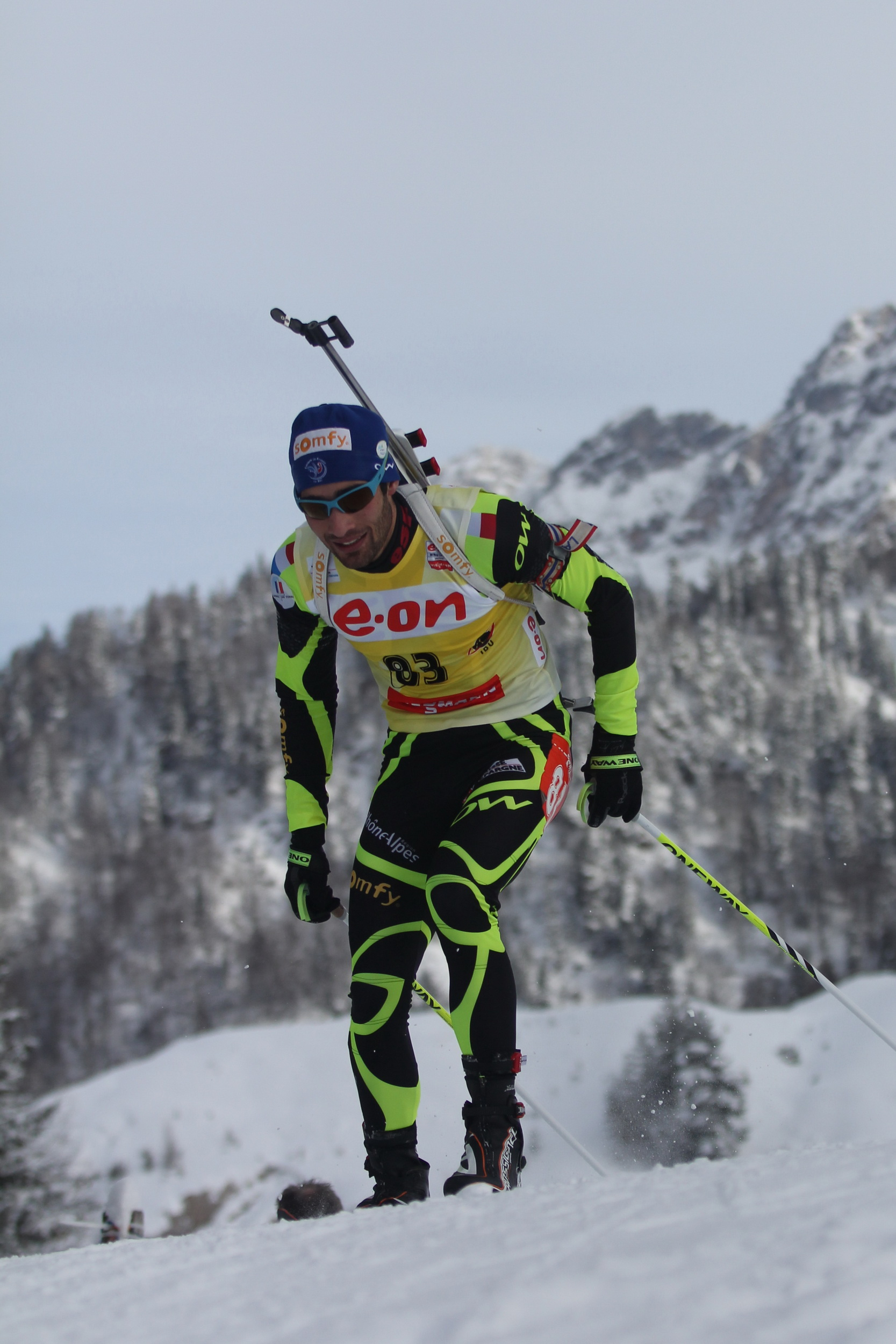 Martin Fourcade at Biathlon Weltcup 2012 in Hochfilzen